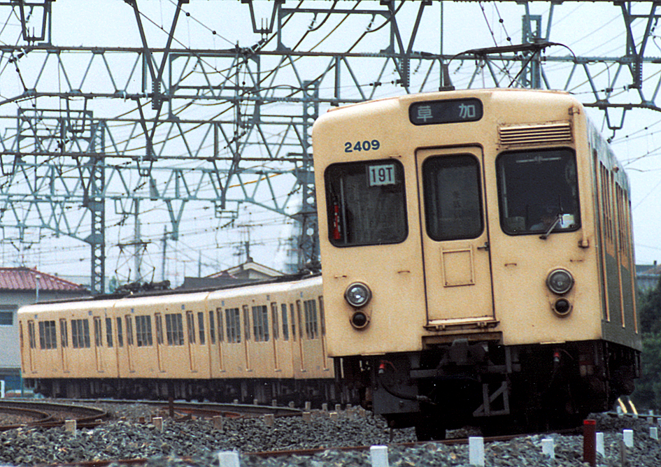 Tobu Railway 2000 series EMU set 2109 near Nishiarai Station